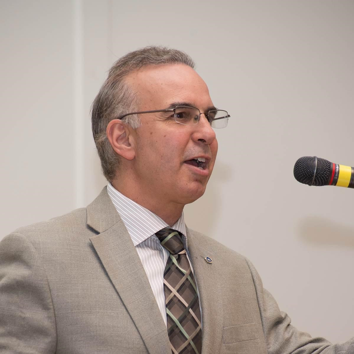 Lenny Mirra speaks at Eagle Scout Court of Honor